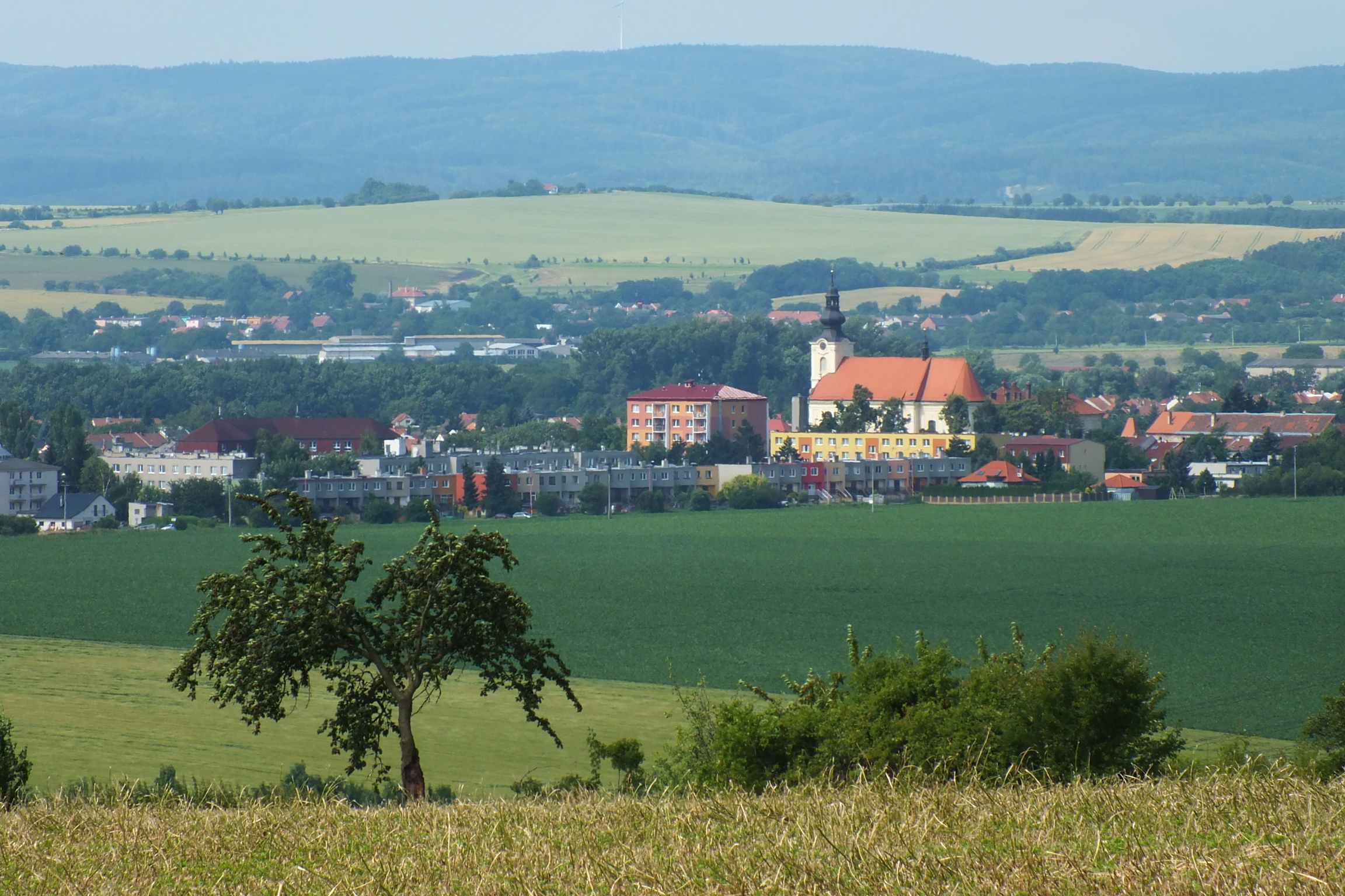 Town Kostelec na Hané with the Church of Saint Jakub Older.